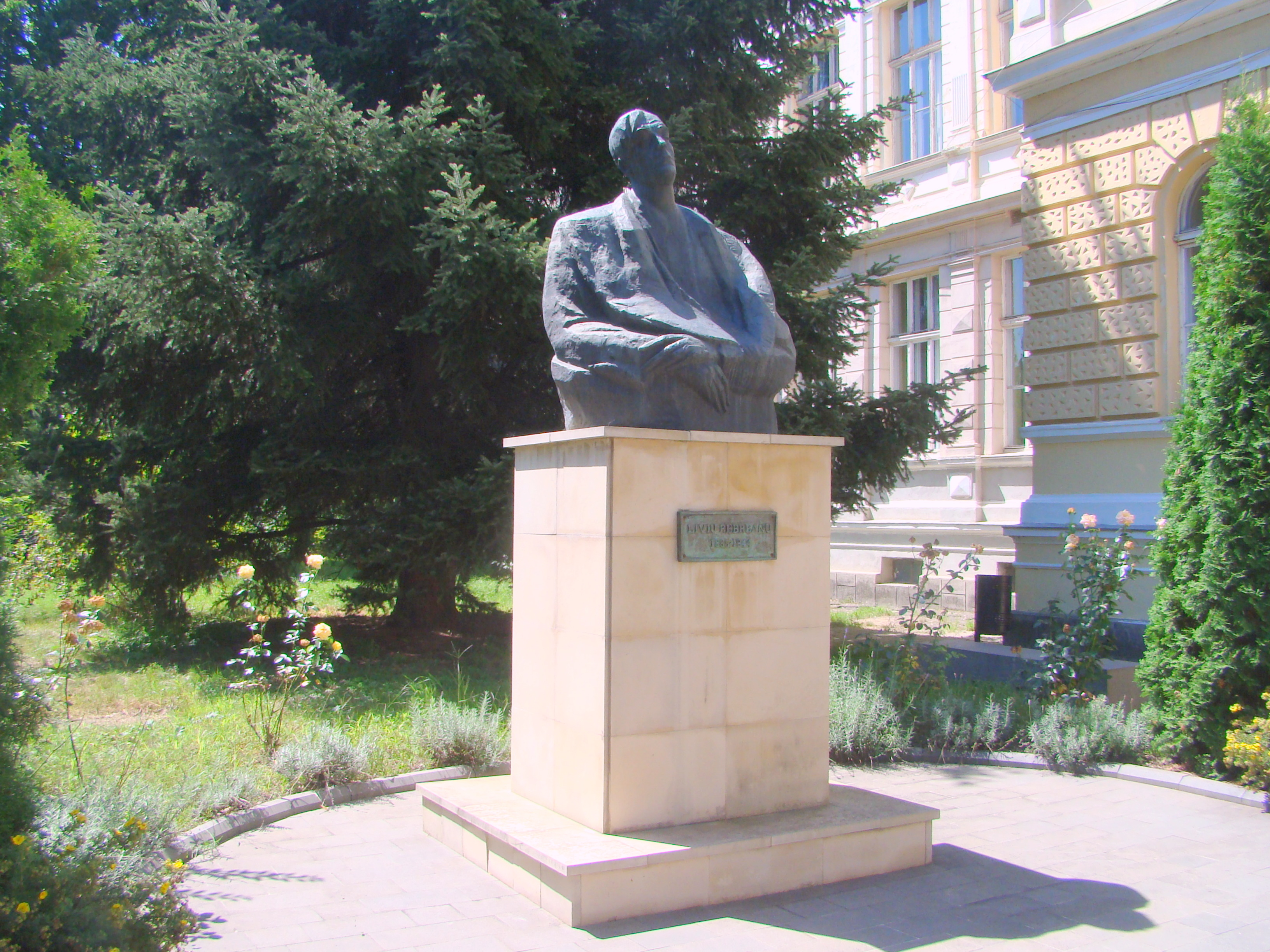 Bust of Liviu Rebreanu in Bistrița